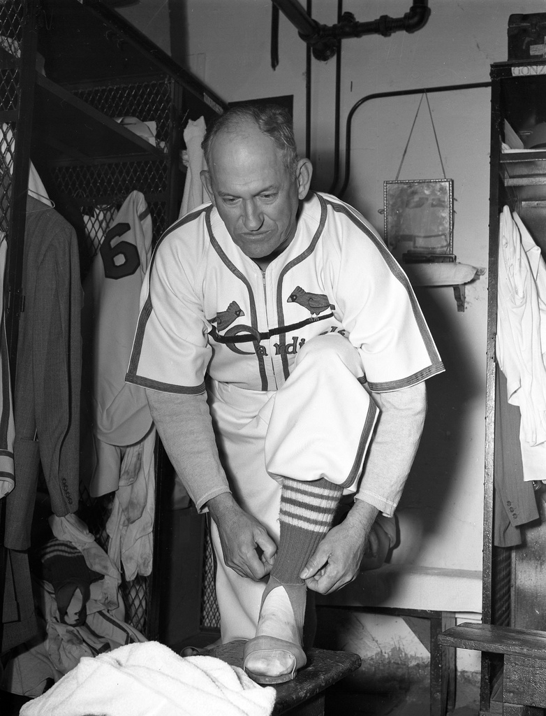 Collection Name: Commerce and Industrial Development Collection Photographer/Studio: Massie, Gerald Description: Man puts St. Louis Cardinals uniform on in locker room before a World Series game against the Boston Red Sox. Coverage: United States - Missouri - St. Louis - St. Louis City Date: 1946 Rights: Copyright is in the public domain. Credit: Courtesy of Missouri State Archives Image Number: CID_024_099 Institution: Missouri State Archives